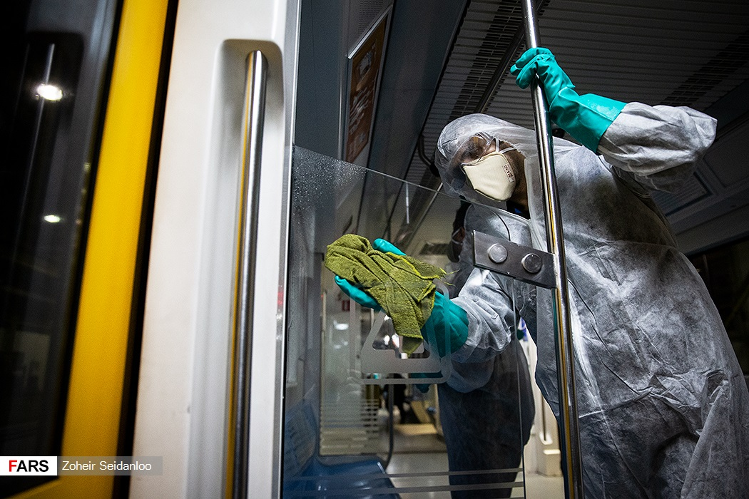 workers disinfect Tehran subway wagons against coronavirus